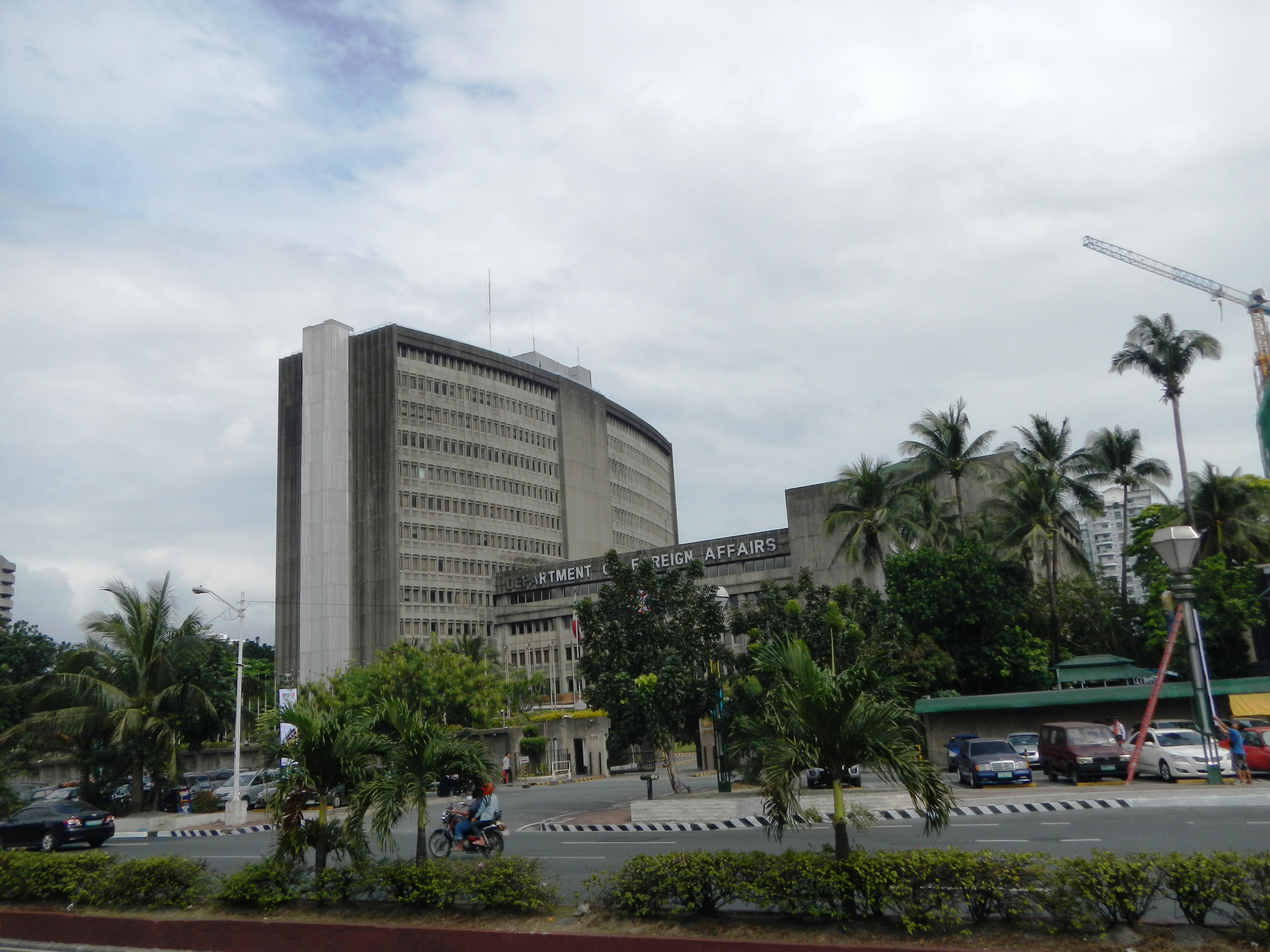 Department of Foreign Affairs (Philippines) [1] DFA Building, Roxas Boulevard, Barangay 13, Pasay City